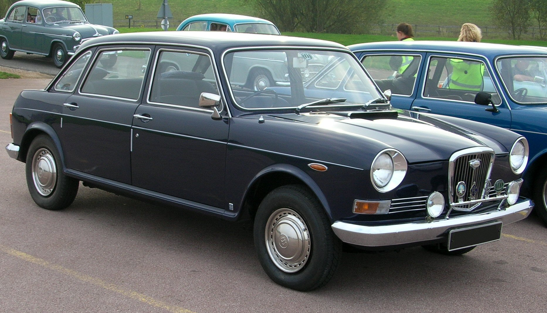 A 1972 Wolseley Six Automatic. Photographed at the Alec Issigonis centenary rally at the Heritage Motor Centre, Gaydon, UK.